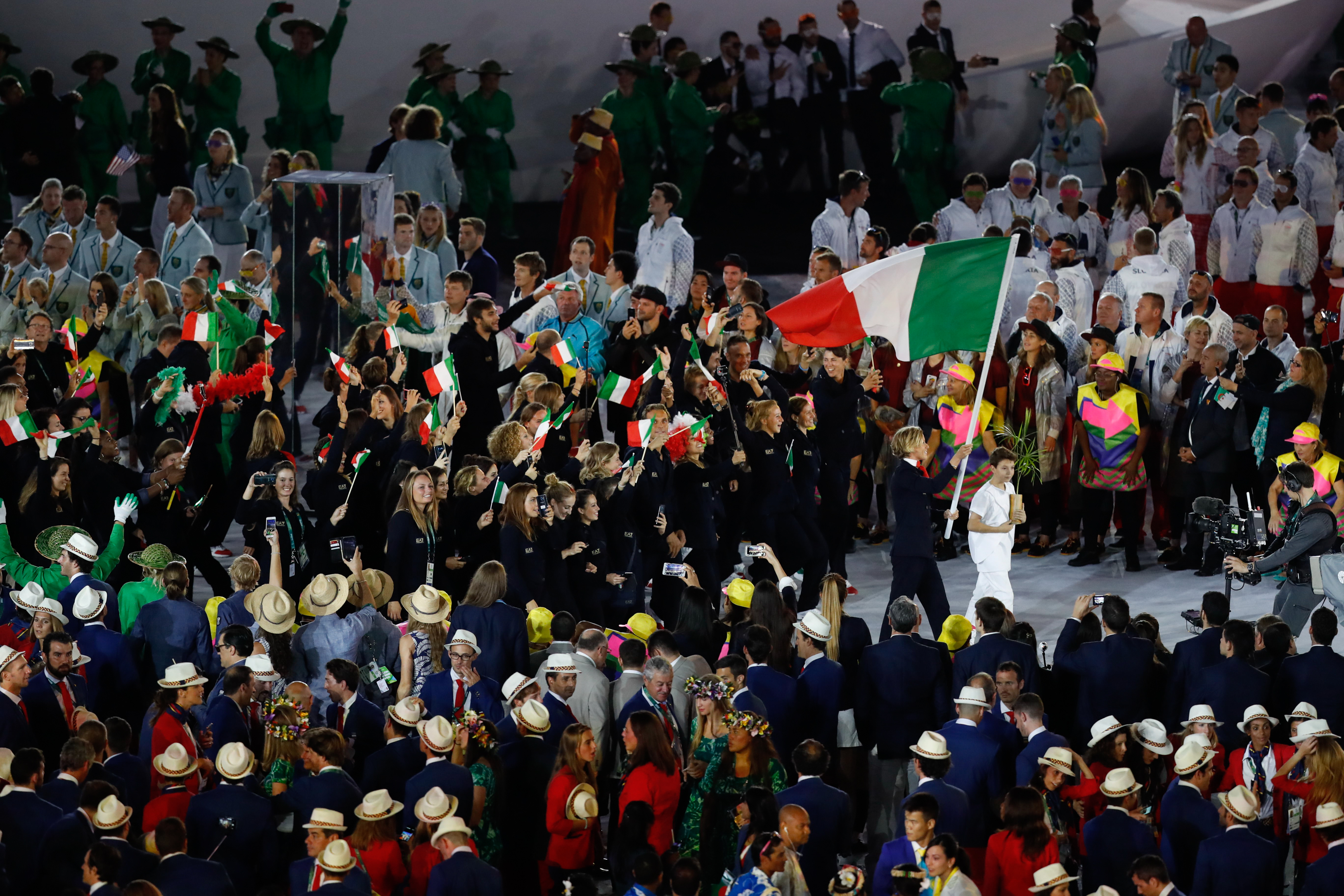 Rio de Janeiro - Cerimônia de abertura dos Jogos Olímpicos Rio 2016 no Estádio do Maracanã. (Fernando Frazão/Agência Brasil)